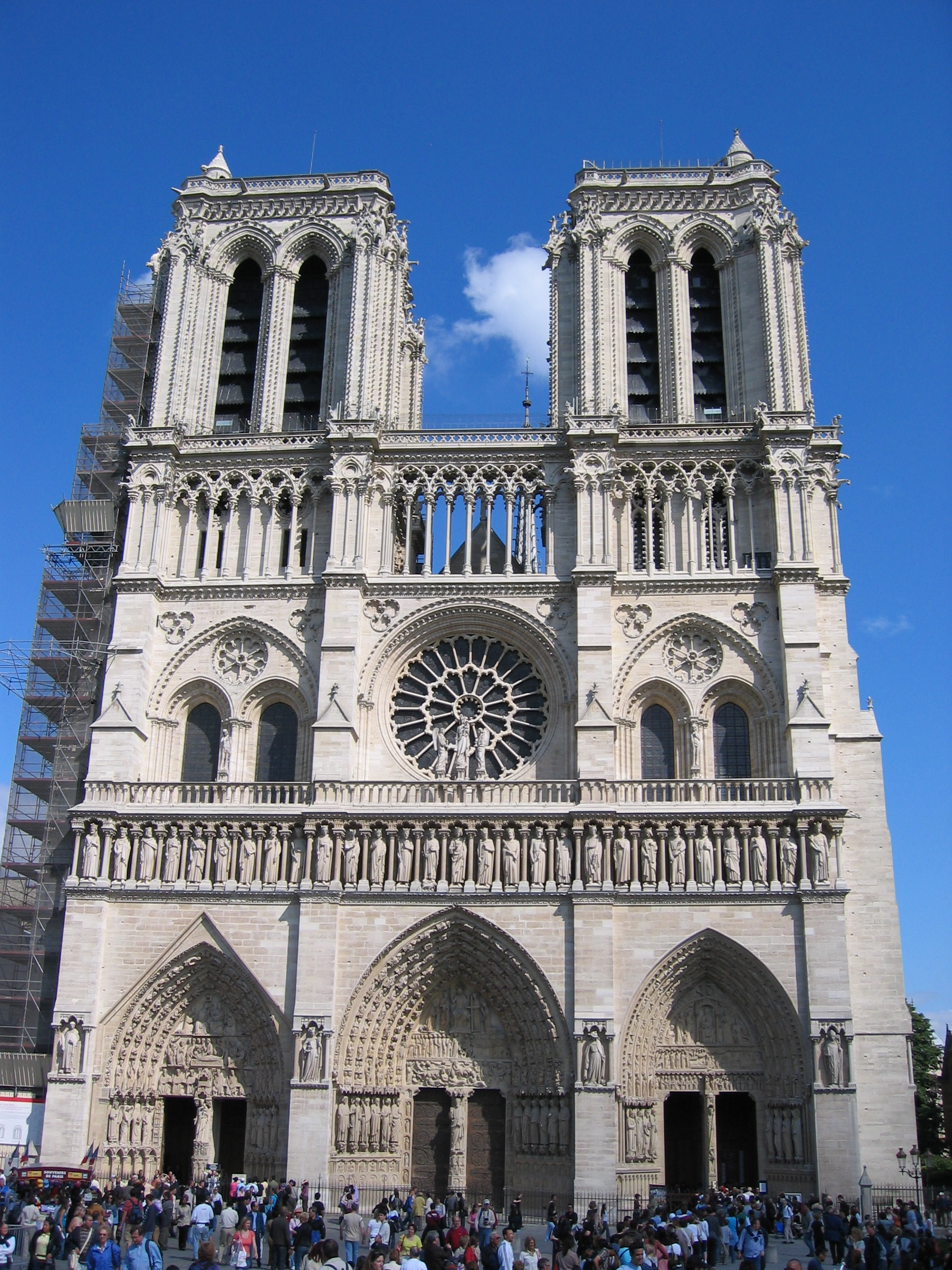 Notre Dame Cathedral - Paris: Notre Dame Cathedral. From the backroads trip taken in June 2004.